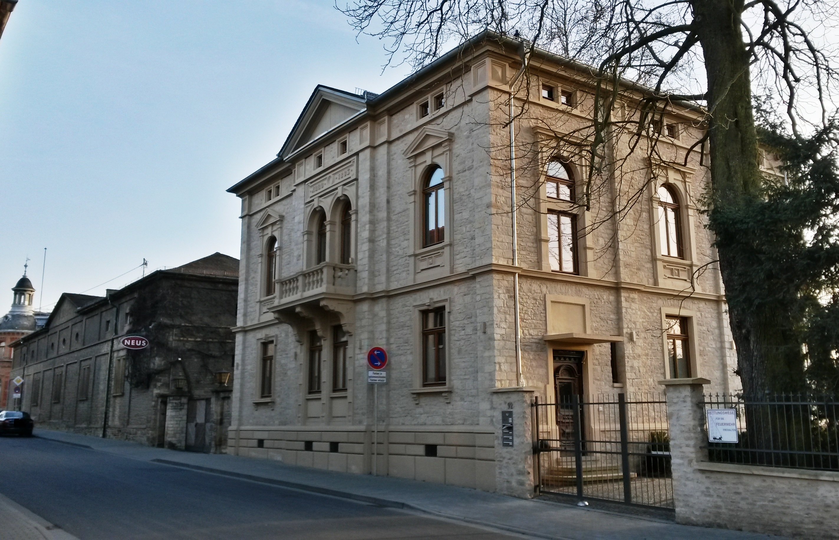 Winery J. Neus Oberingelheim, Bahnhofstrasse 96, stately crushed stone villa, 1883, architect C. Richter , Mainz